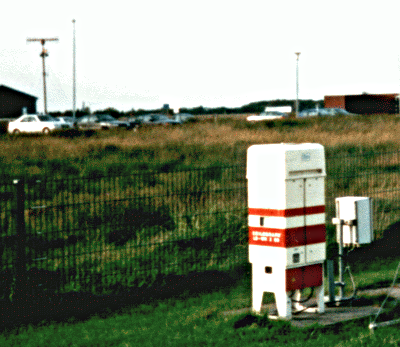 Laser ceilometer